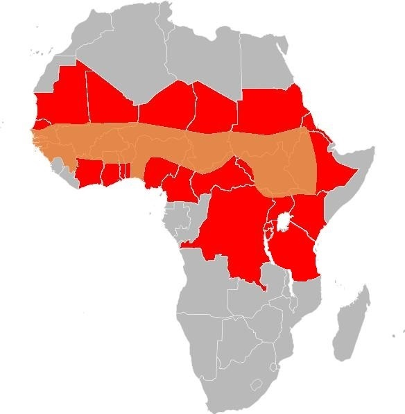 African Meningitis belt -2016 Orange - African meningitis belt. Red - Countries within the meningitis belt and areas prone to outbreaks of meningitis epidemics.